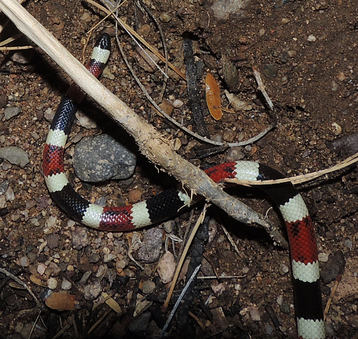 Micruroides euryxanthus (Sonoran Coral Snake) in Arizona.